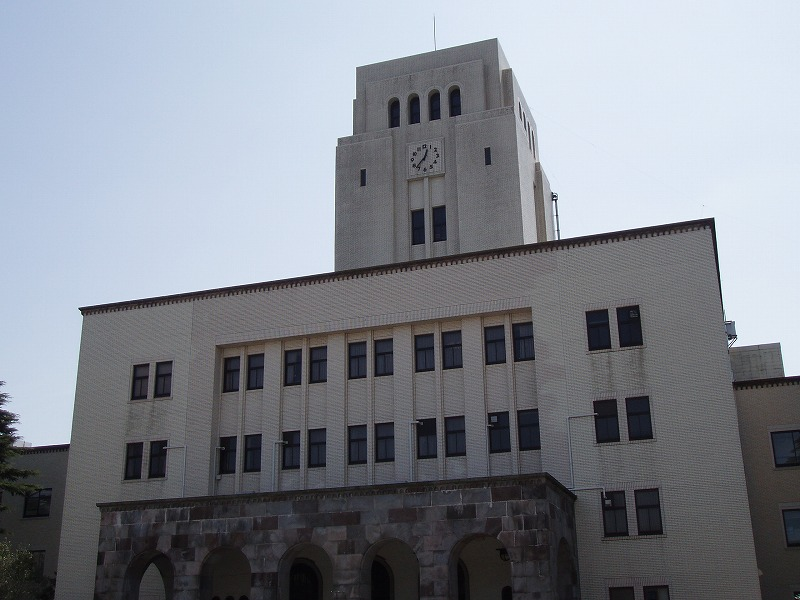 The main building of Ookayama Campus, Tokyo Institute of Technology. Located in Meguro-ku, Tokyo, Japan.